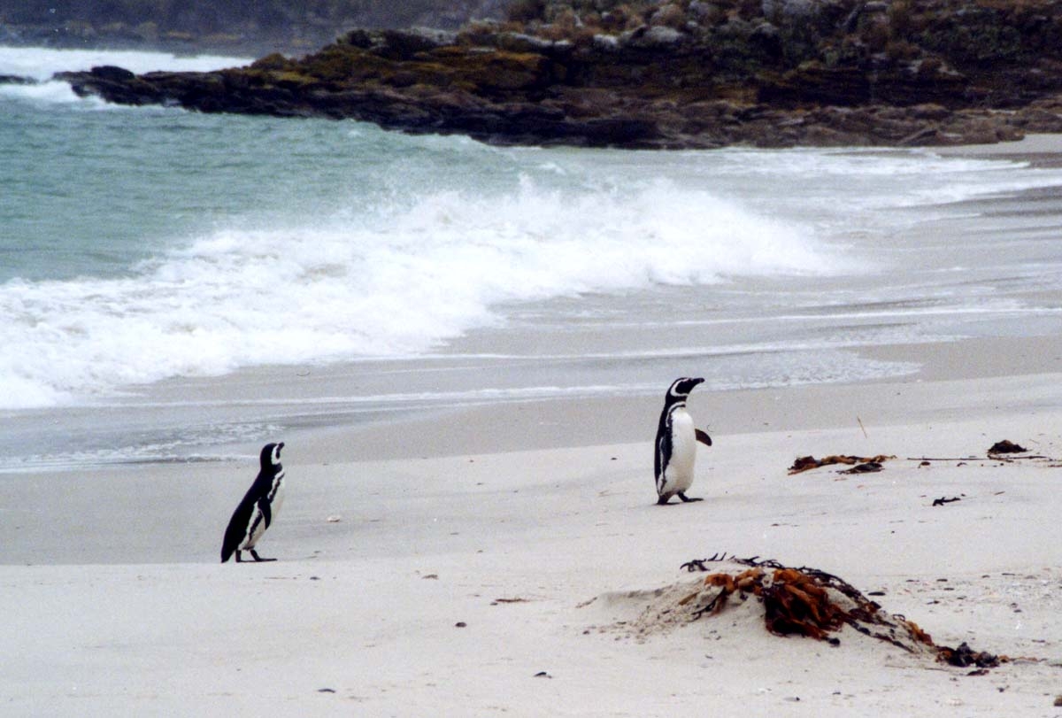 Photo of Spheniscus magellanicus (Magellanic penguin) on beach of Carcass Island, Falkland Islands